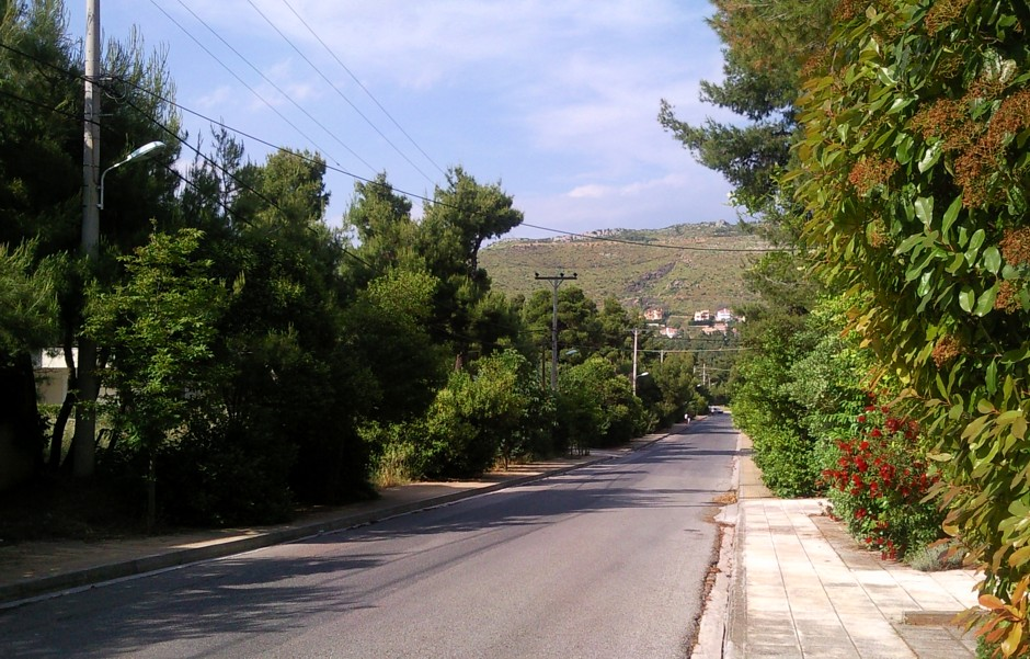 Aiolidos street at Dionysos of Attica.